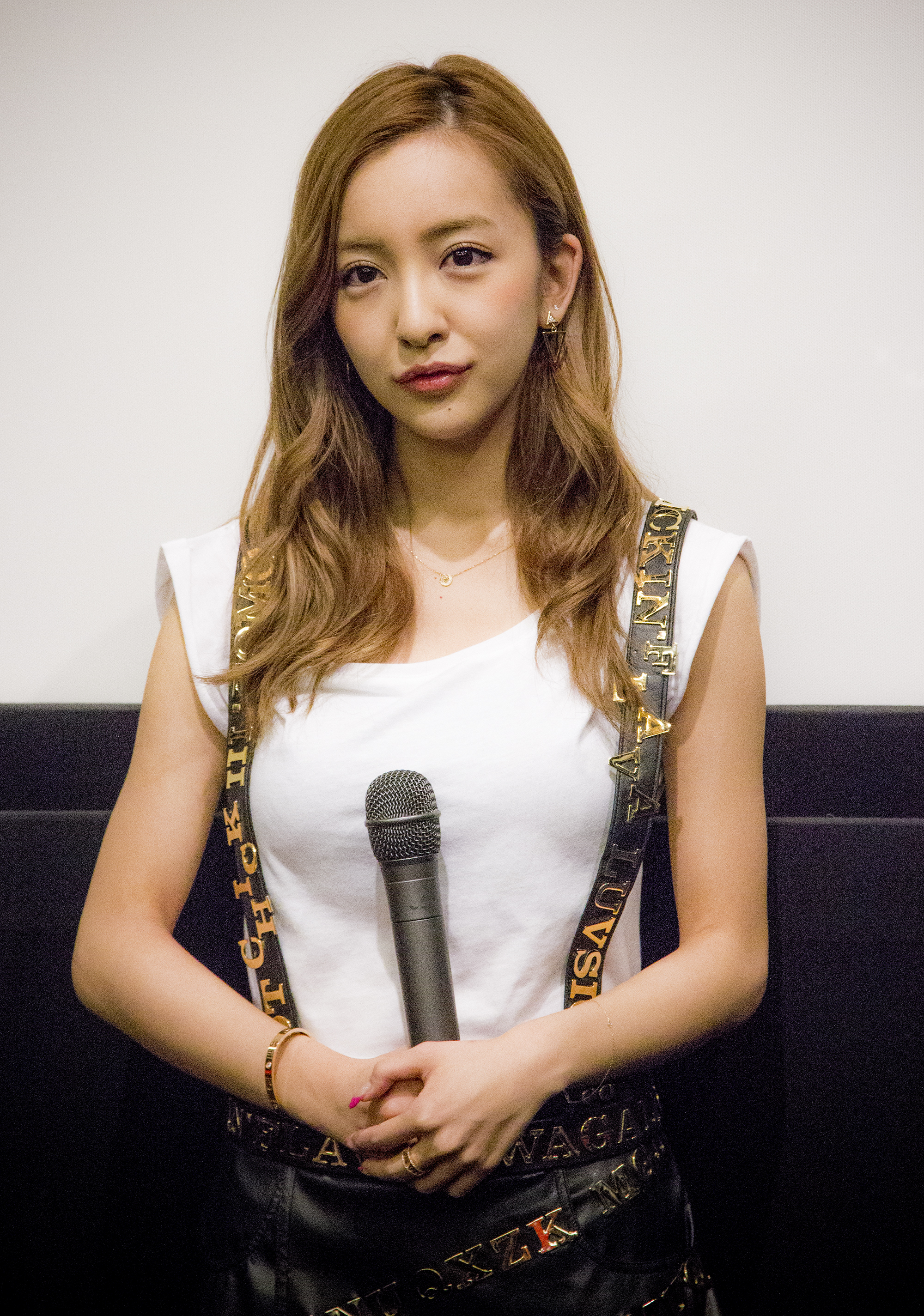 Tomomi Itano during the press conference at the J-POP Summit Festival 2014 in San Francisco, California